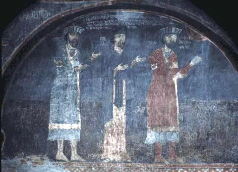 The chtitors Lasurisdze, a fresco from the Sapara monastery belltower, Samtskhe-Javakheti, Georgia